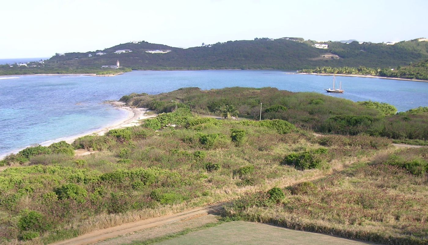 View of the Columbus crew landing site taken from the National Park Service visitor center at Salt River Bay National Historical Park and Ecological Preserve. 17°46′47″N 64°45′42″W / 17.77972°N 64.76167°W